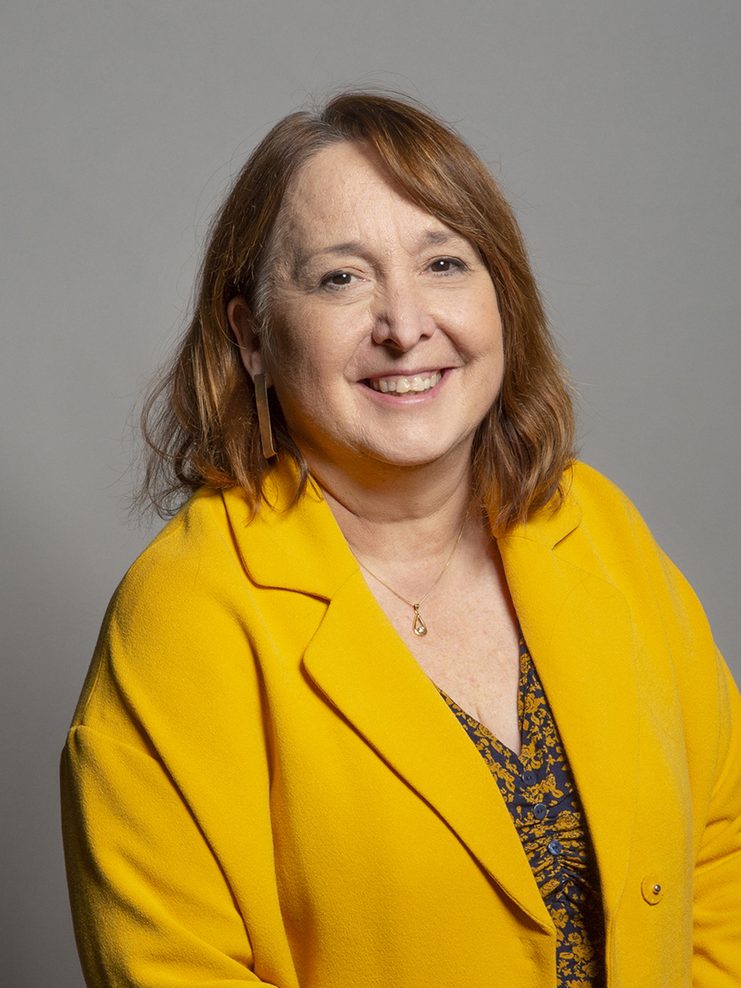 Official portrait of Christine Jardine MP 3×4 portrait of Christine Jardine